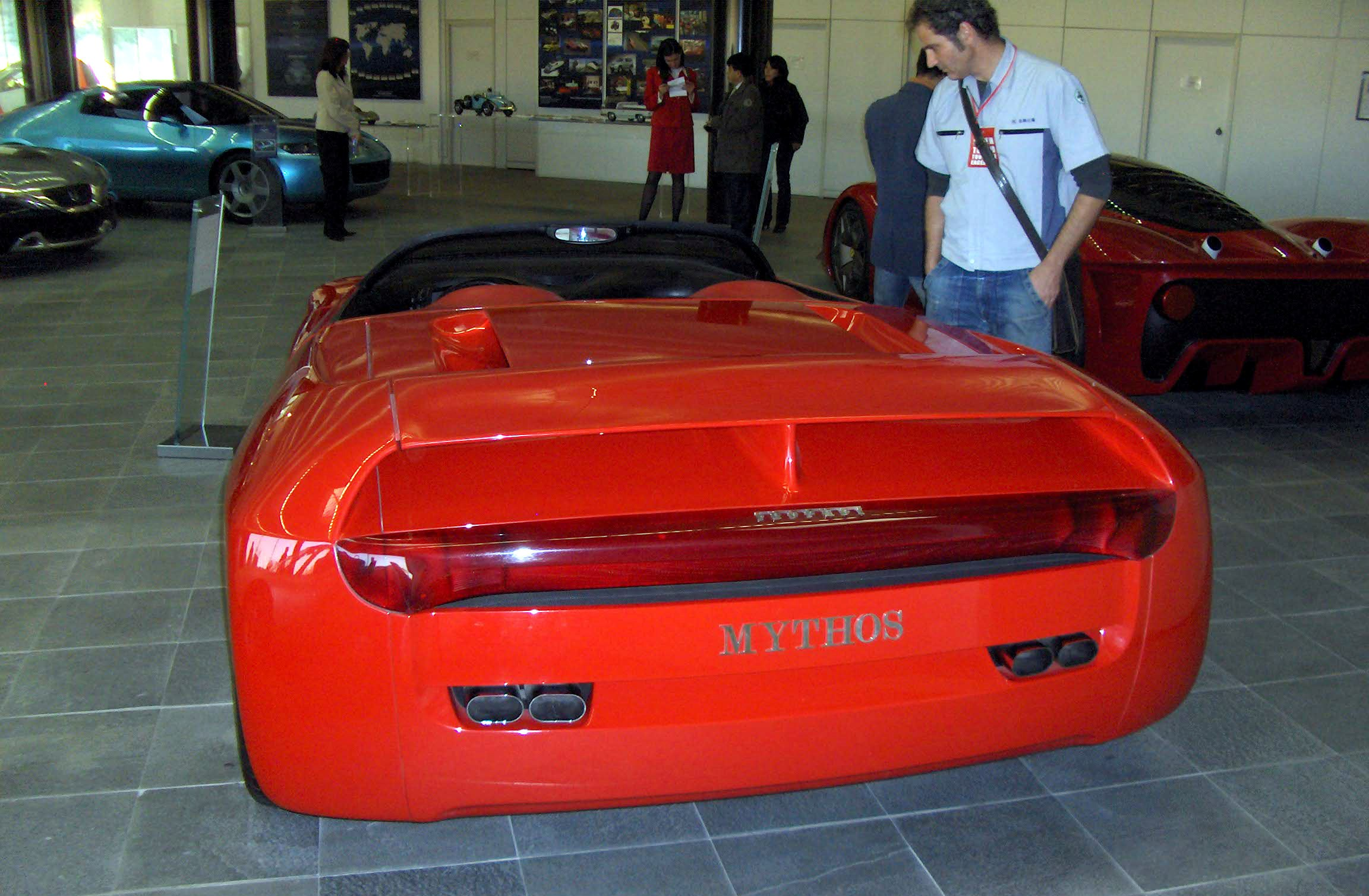 Ferrari Mithos